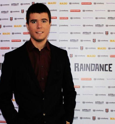 Boris Malagurski at the Raindance Film Festival